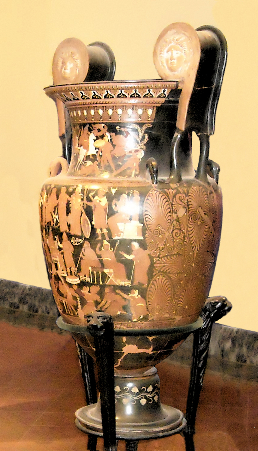 Darius vase Napoli Museum without background